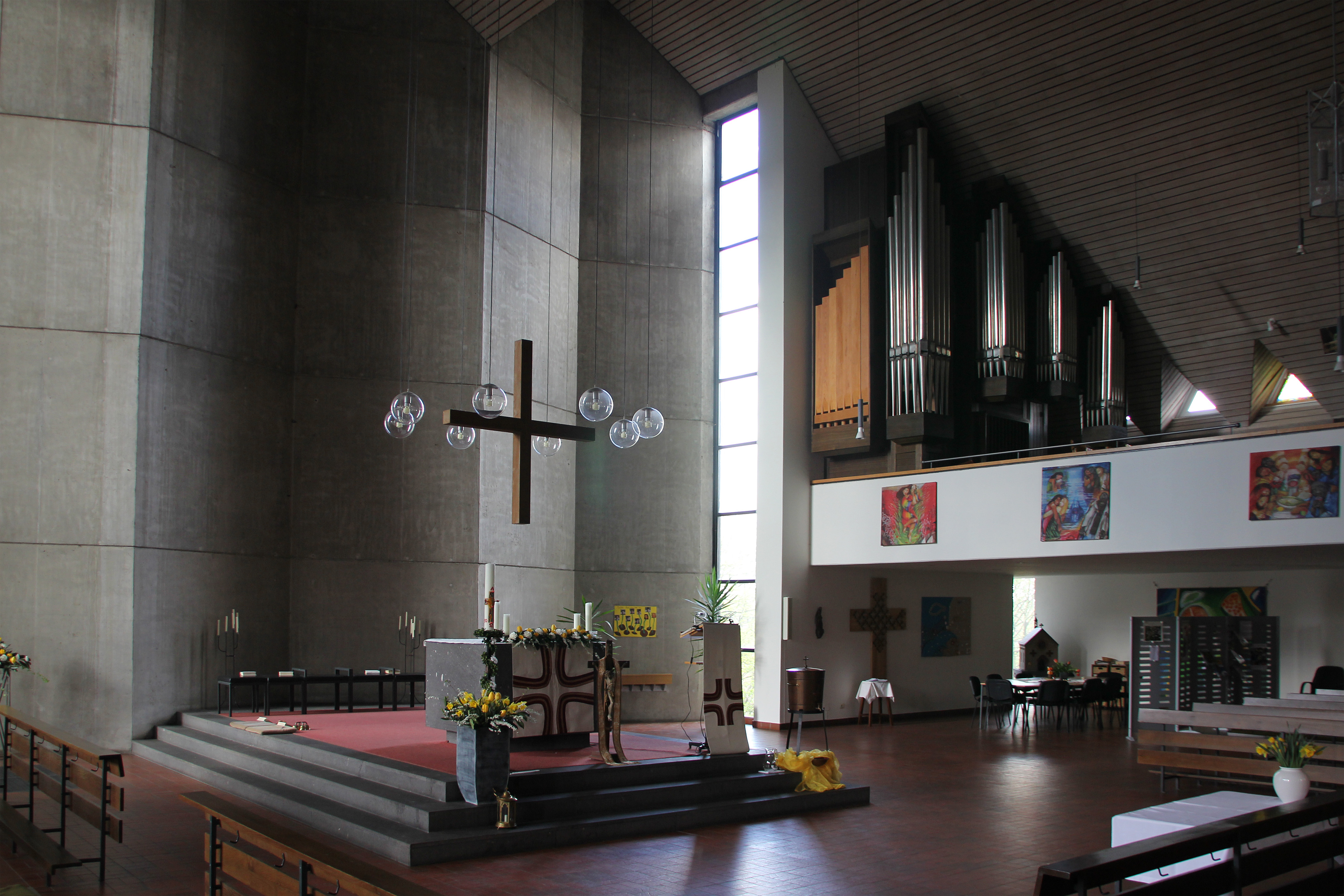 St. Aldegundis church in Koblenz